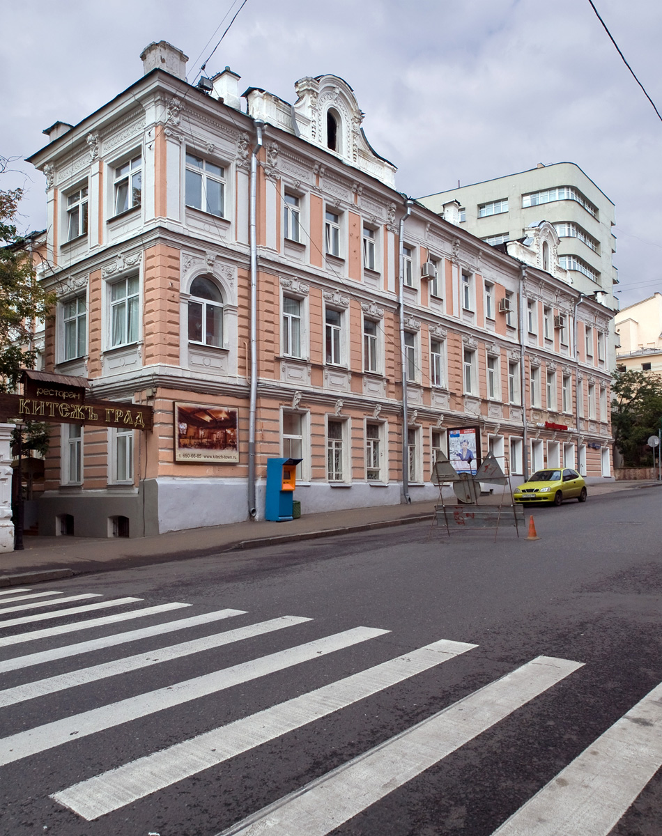 Petrovka Street, Moscow (corner of Petrovsky Lane)